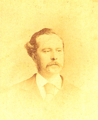 Edward Welby Pugin, English Victorian architect (1834–1875)